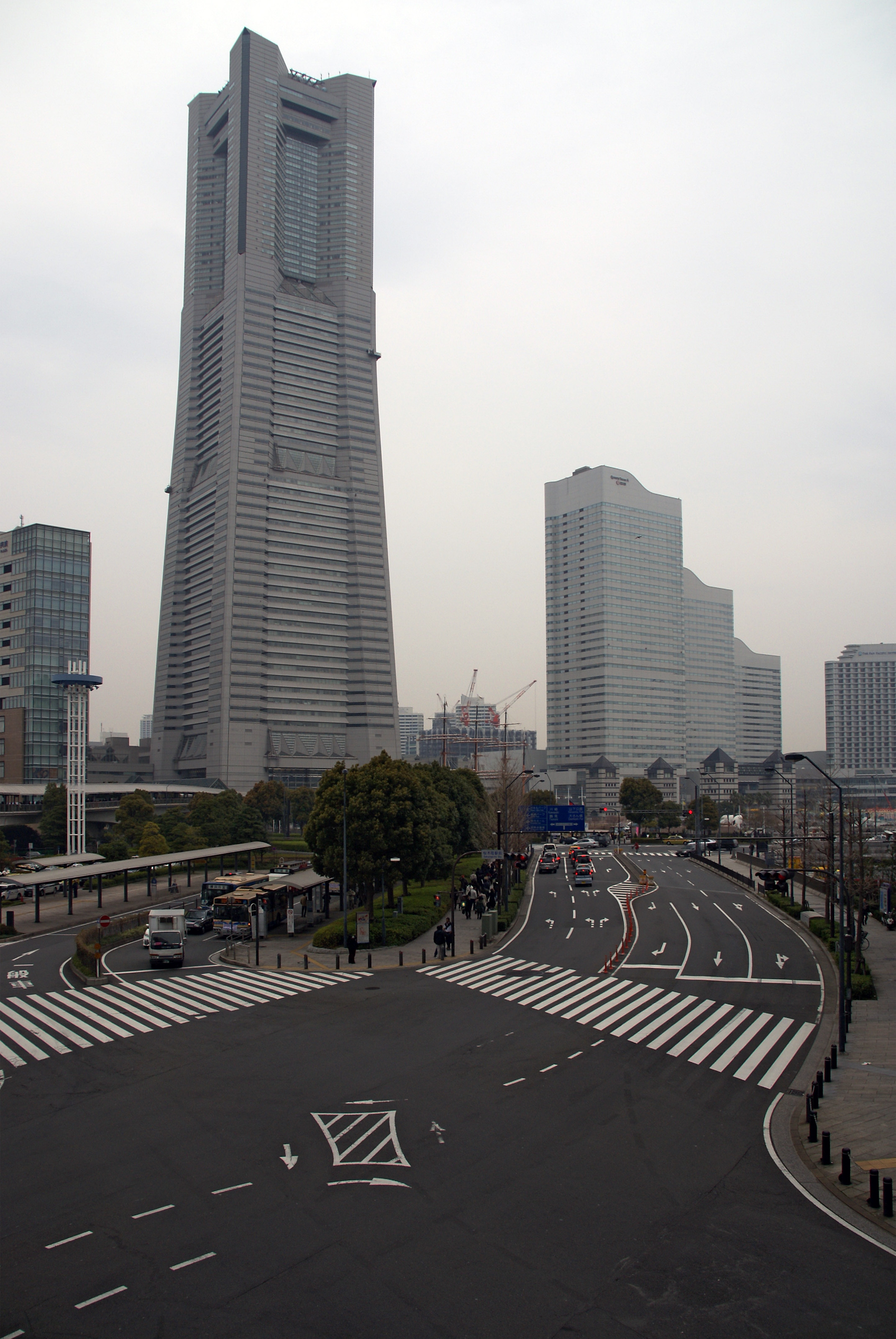 In front of Sakuragicho station in Yokohama, Kanagawa, Japan